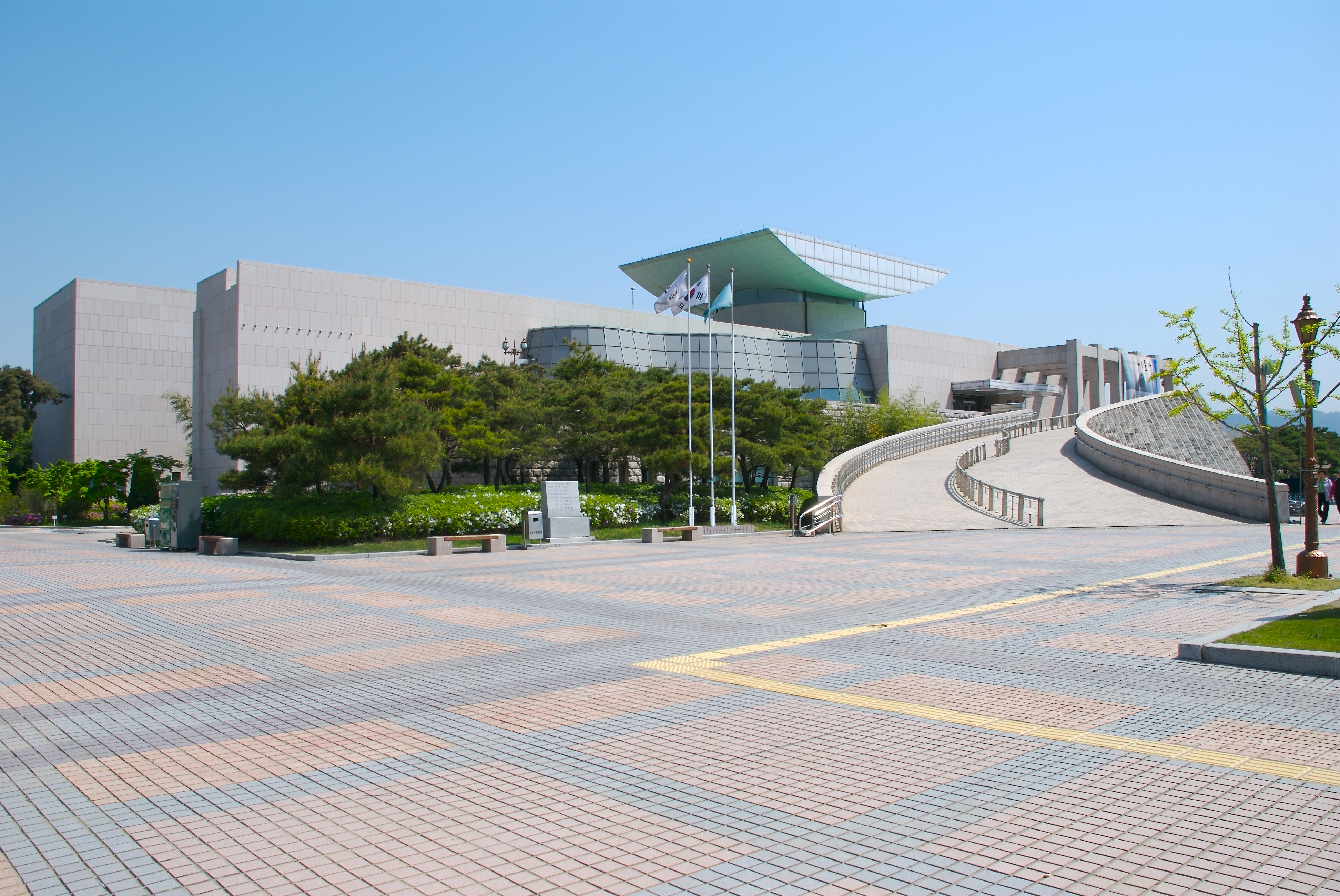 Photograph of the Daejeon Museum of Art in the city of Daejeon, South Korea.